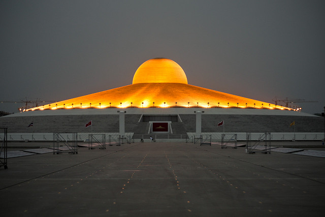 The Cetiya at Wat Phra Dhammakaya as seen at night. The top part of the structure is carpeted with 300,000 golden statues of the PraDhammakaya.